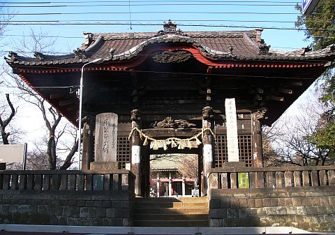 Niōmon gate of Chiba-dera, Chiba City, Chiba Prefecture.